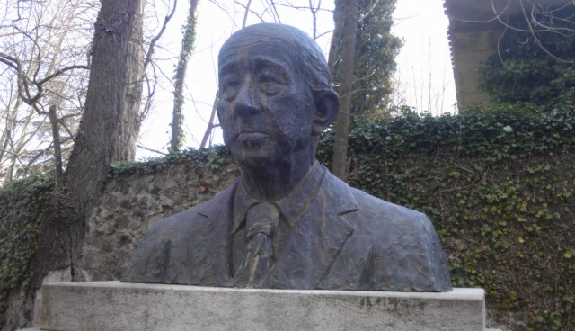 Bust of the painter Pere Gussinyé i Gironella at "Parc Nou" von Olot, Spain (from Ferrés Curós)